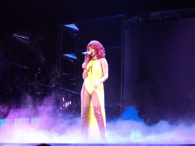 Rihanna Live at Oracle Arena on her LOUD Tour.